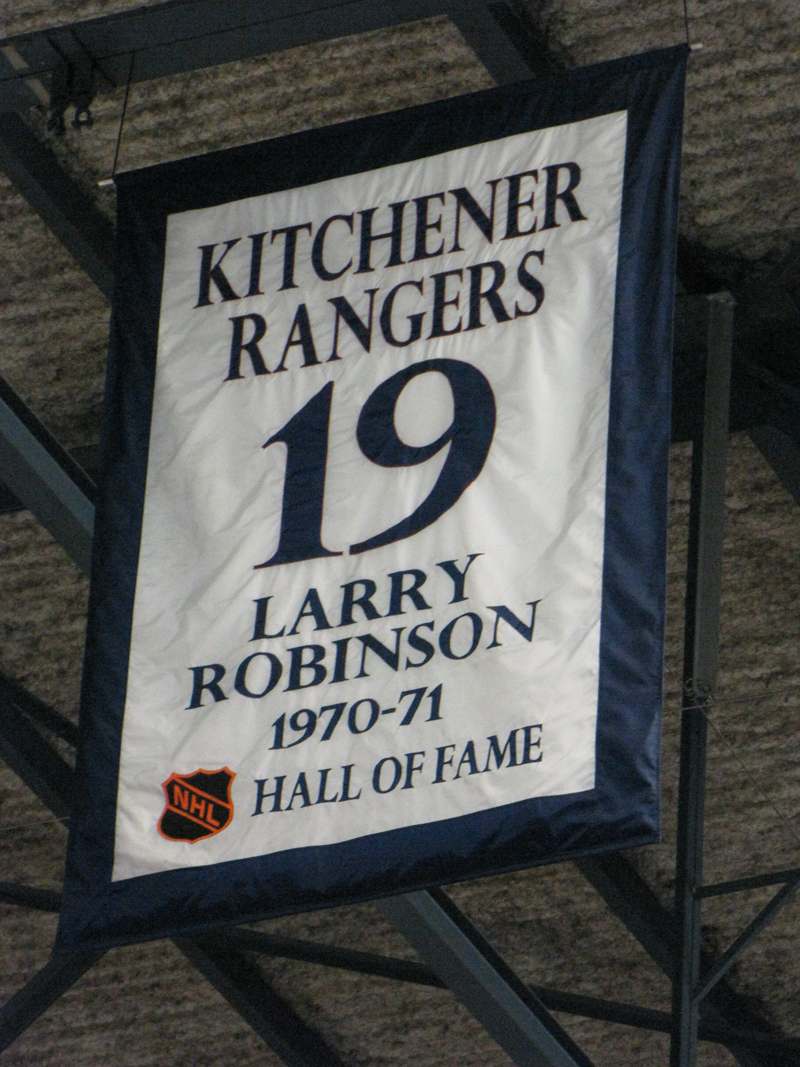 Banner honouring Larry Robinson